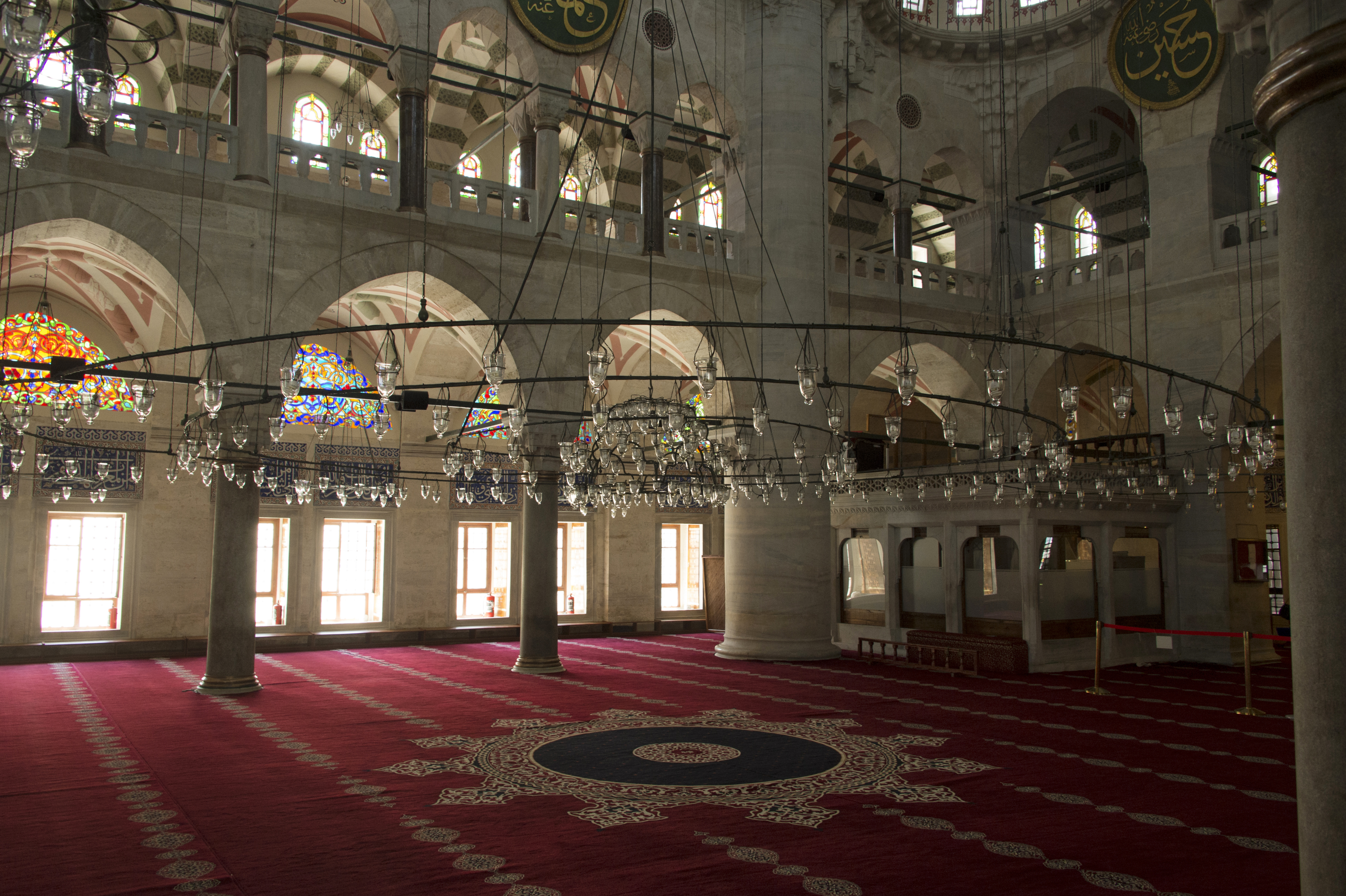 The mosque generally looks rather dark, even though there are many windows.